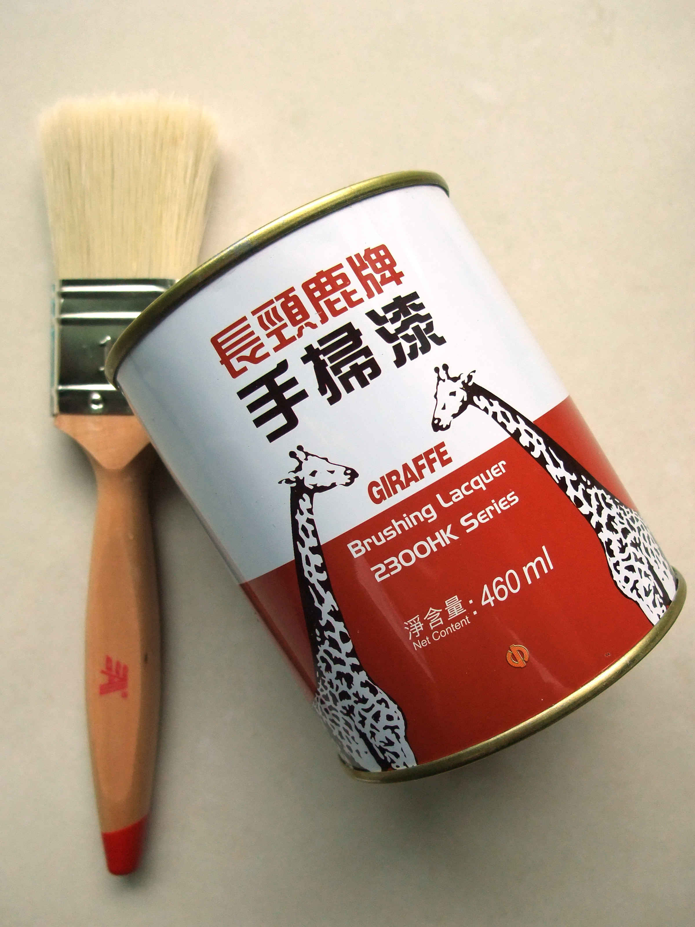 Brushing lacquer (460ml) by the China Paint Manufacturing Company (1932) Limited.